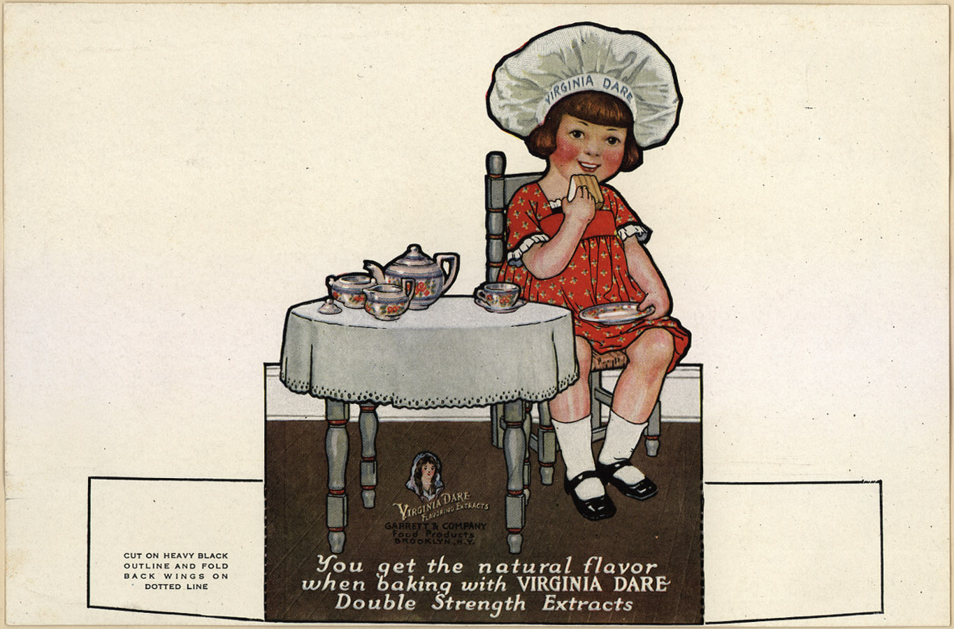 Label for Virginia Dare Flavoring Extracts, produced by the Garrett & Company beginning in 1923, and named for the mysterious Virginia Dare, who vanished from the colony at Roanoke Island, North Carolina, in the 16th century. [1]